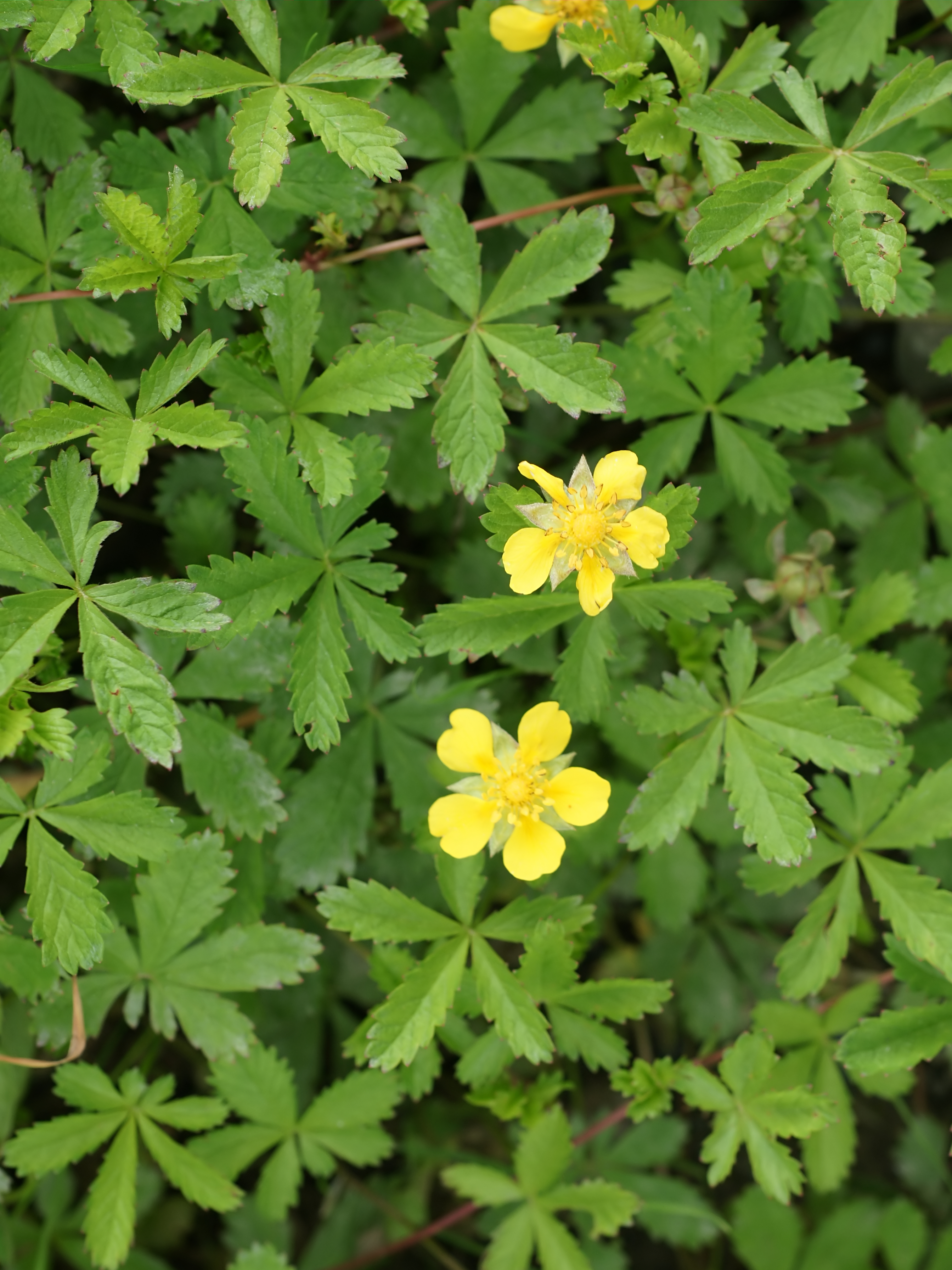 Creeping cinquefoil at Langdorp, Belgium